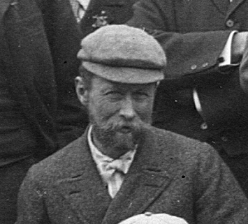 American geologist Bailey Willis (1857-1949) at age 40. Cropped from a group photo taken at Jefferson Rock, Harpers Ferry, West Virginia.